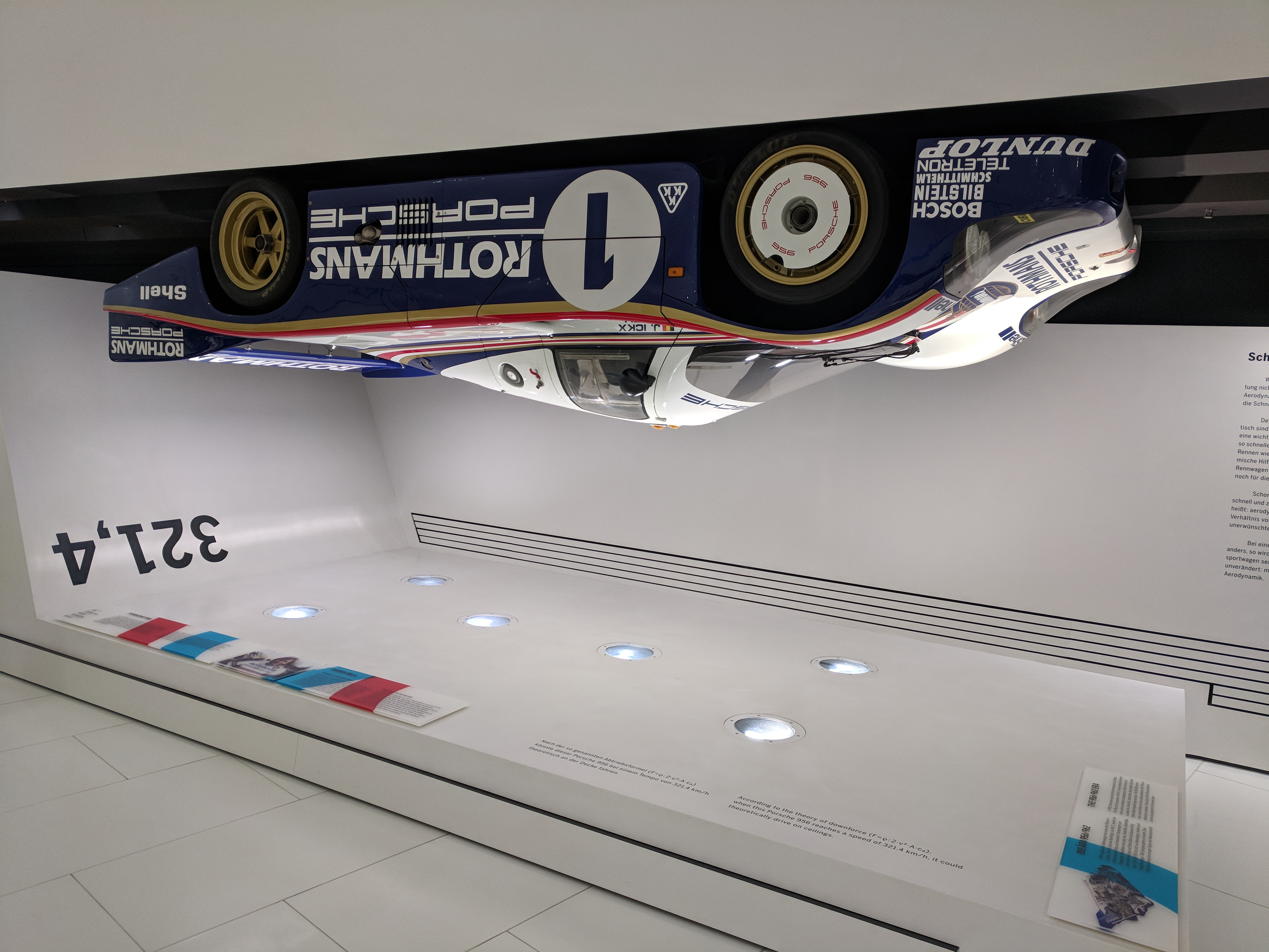 The Porsche 956 is mounted upside down at the Porsche Museum in Stuttgart to symbolize the downforce is generated, which was purportedly enough for the car to continue to race upside down if the track were to be inverted.